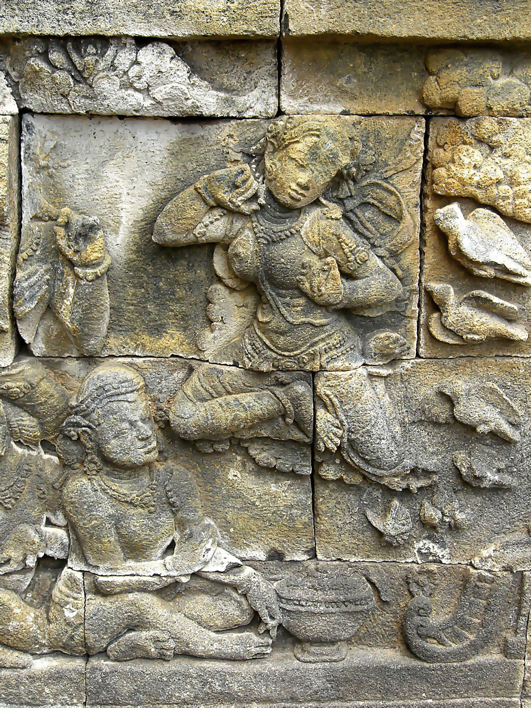 Flying Apsara, the celestial maiden on Borobudur bas-relief, Central Java, Indonesia.